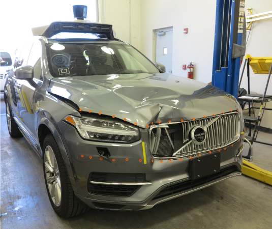 Postcrash view of the Uber test vehicle, showing damage to the right front side.